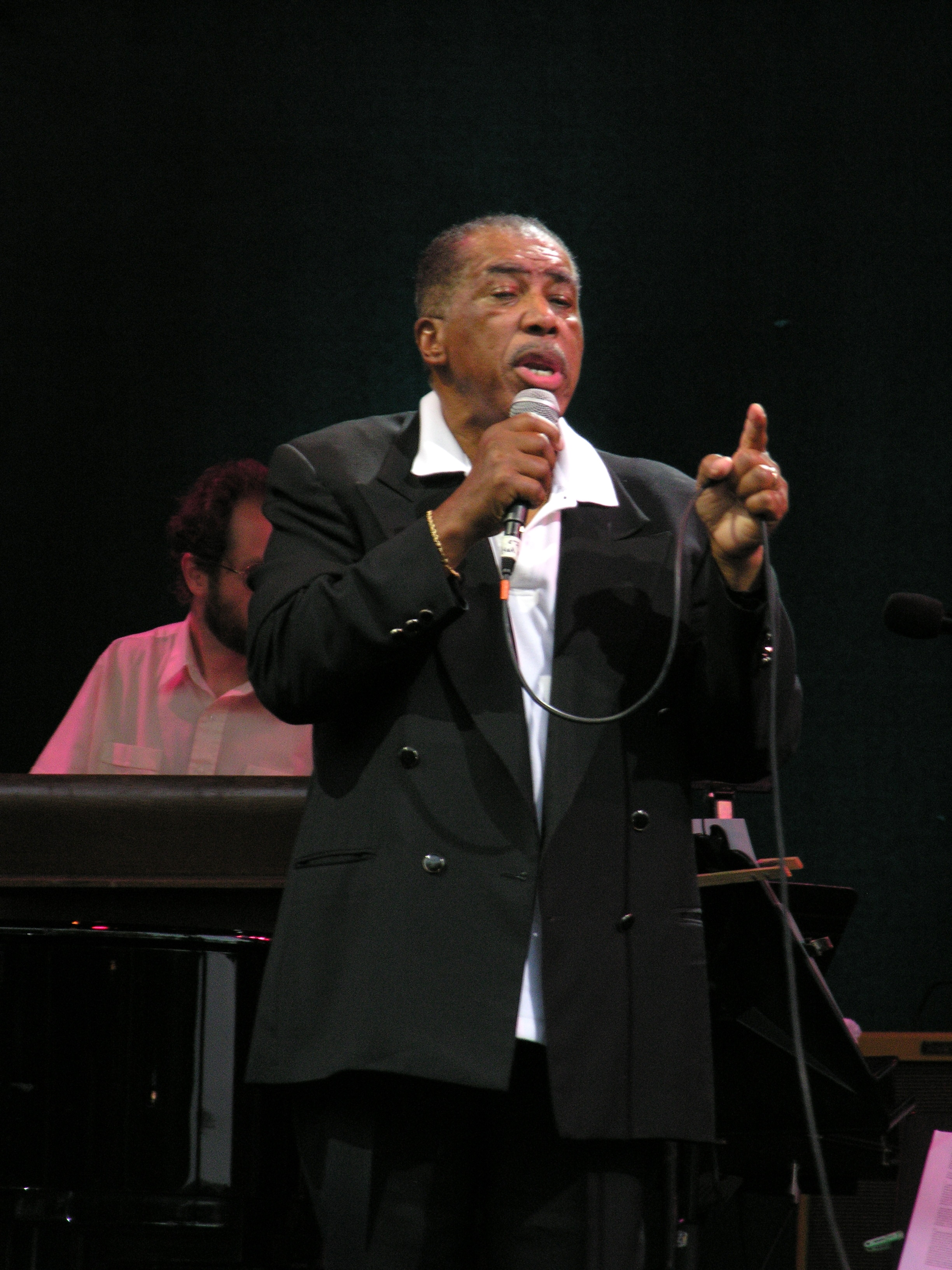 Ben E. King at a concert in New York, July 2007.